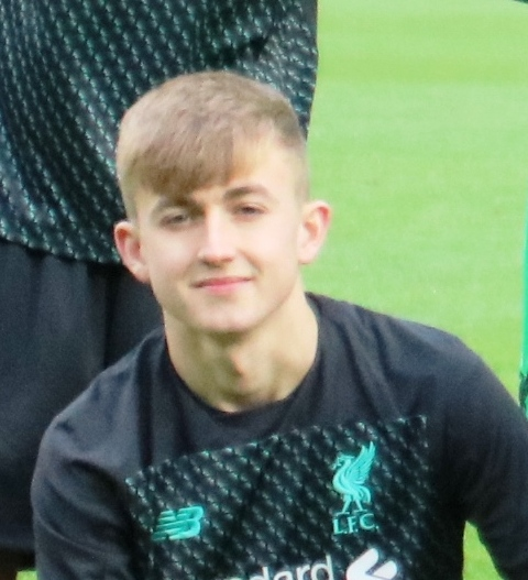 Top row: Elijah Dixon-Bonner, Winterbottom, Sepp Van Den Berg, Luis Longstaff, Ki-Jana Hoever, Thomas Hill Bottom row: Jack Cain, Leighton Clarkson, Neco Williams, James Norris, Harvey Elliott